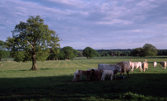 Woolsington Park. Looking south from the Hall. Note the ridge & furrow.